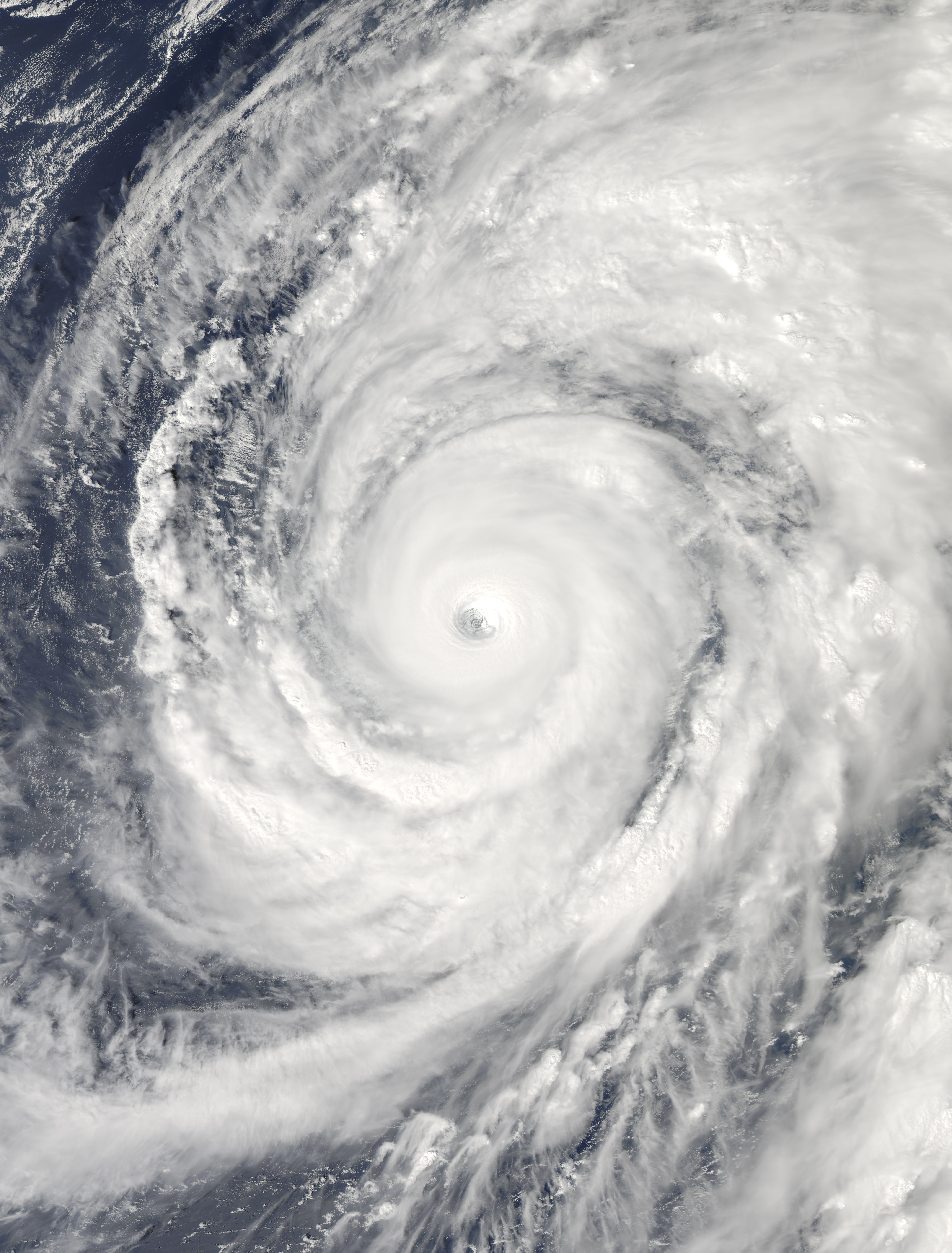 Super Typhoon Hagibis shortly after attaining its secondary peak intensity on October 9, 2019